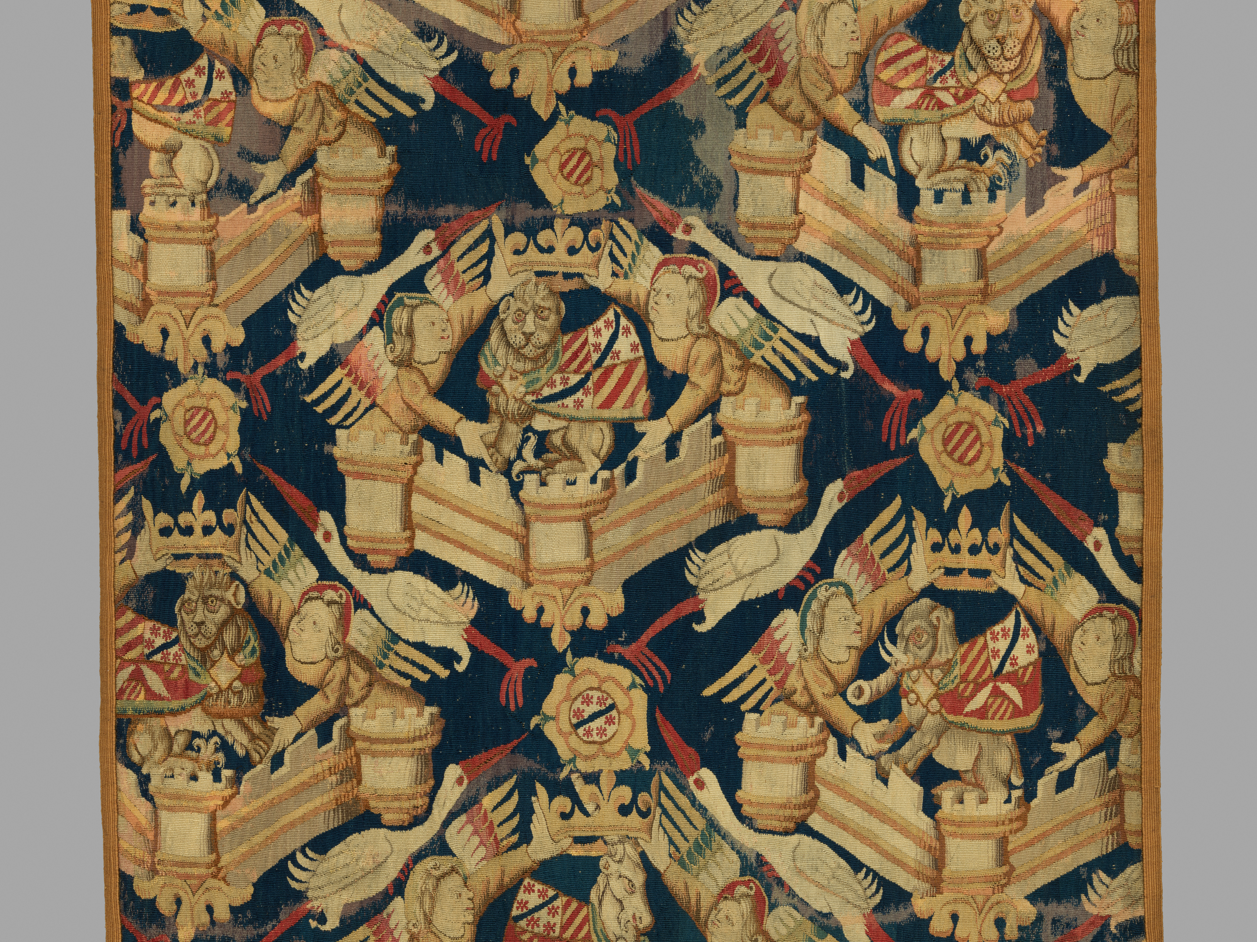 South Netherlandish; Tapestry; Textiles-Tapestries. The arms on caparisons and roses, variously combined, are of Guillaume Rogier, Count of Beaufort, viscount of Turenne and his wife Eleanor of Comminges.